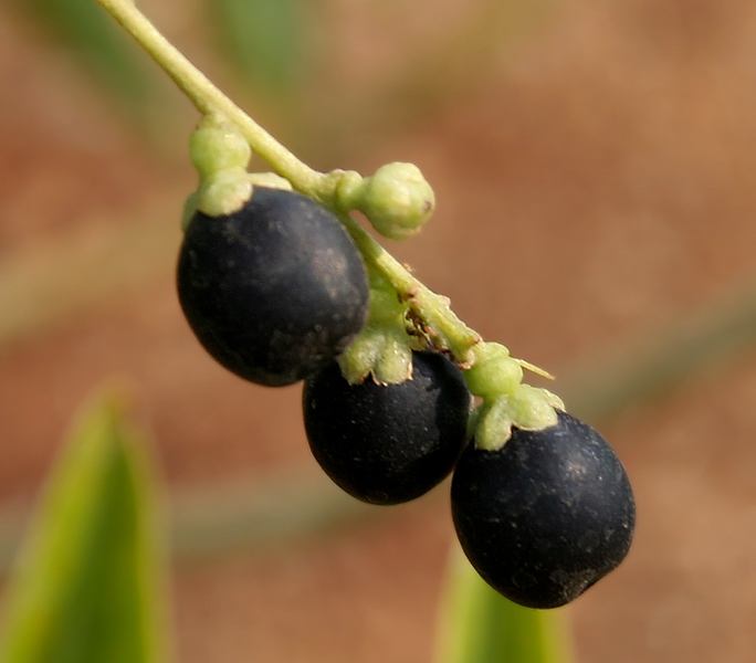 Cestrum diurnum - day cestrum, day jasmine, inkberry, China Berry, white chocolate jasmine, tentanchinu, thauthau or tintan china near Hyderabad, India.